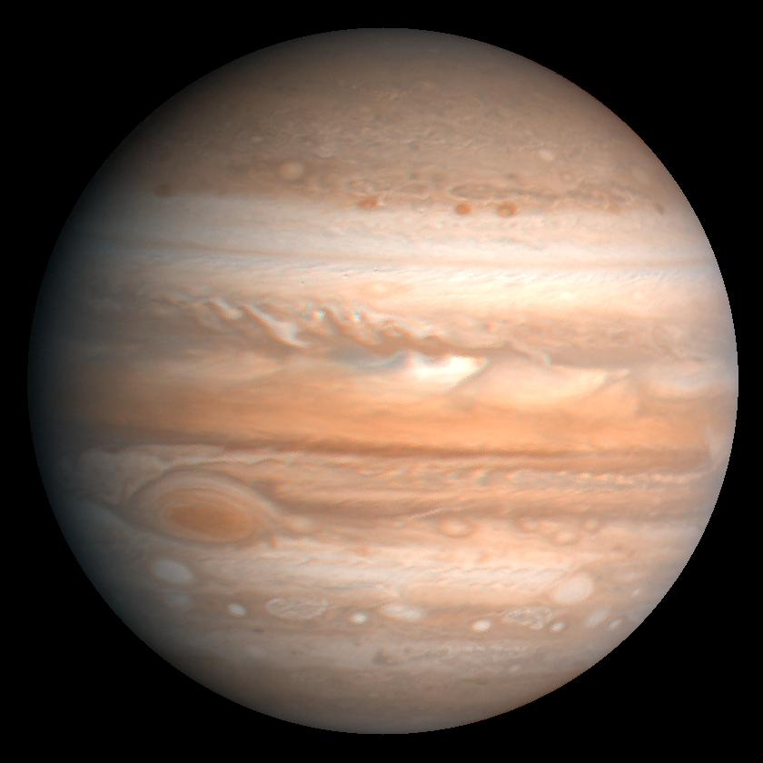 Original Caption Released with Image: This processed color image of Jupiter was produced in 1990 by the U.S. Geological Survey from a Voyager image captured in 1979. The colors have been enhanced to bring out detail. Zones of light-colored, ascending clouds alternate with bands of dark, descending clouds. The clouds travel around the planet in alternating eastward and westward belts at speeds of up to 540 kilometers per hour. Tremendous storms as big as Earthly continents surge around the planet. The Great Red Spot (oval shape toward the lower-left) is an enormous anticyclonic storm that drifts along its belt, eventually circling the entire planet.